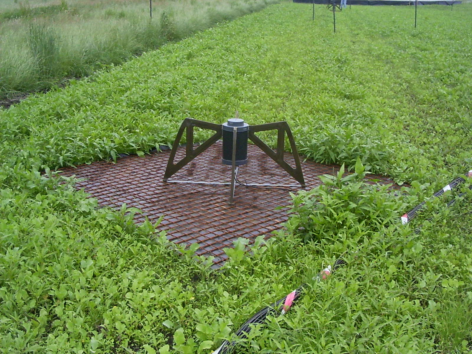 High band antenna Lofar